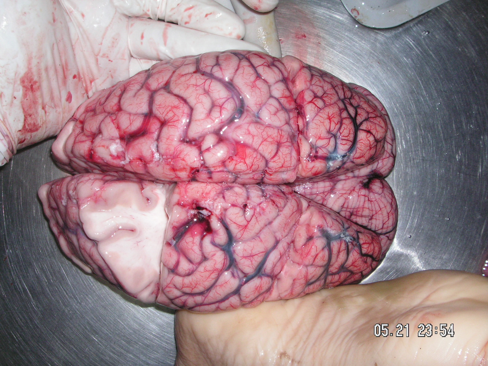 Human brain taken from autopsy.